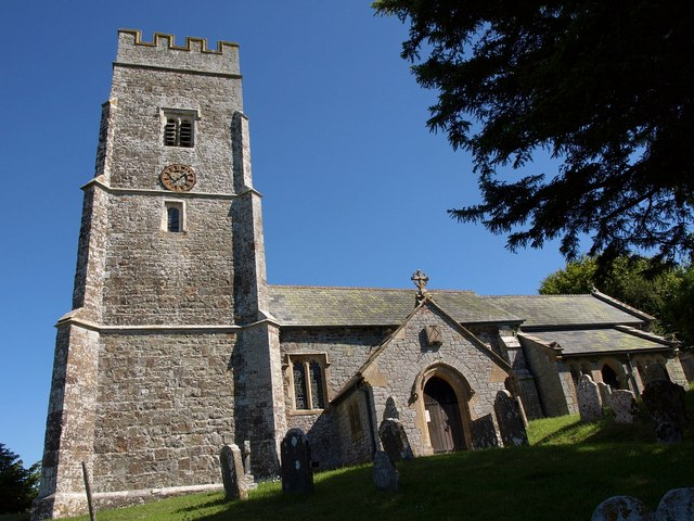 St Mary the Virgin parish church, Washfield, Devon, seen from the south